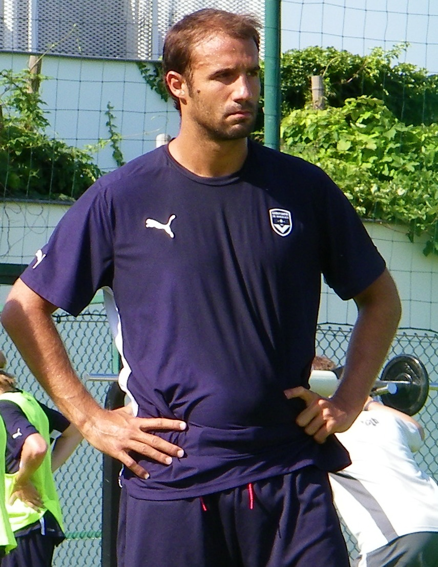 Marc Planus